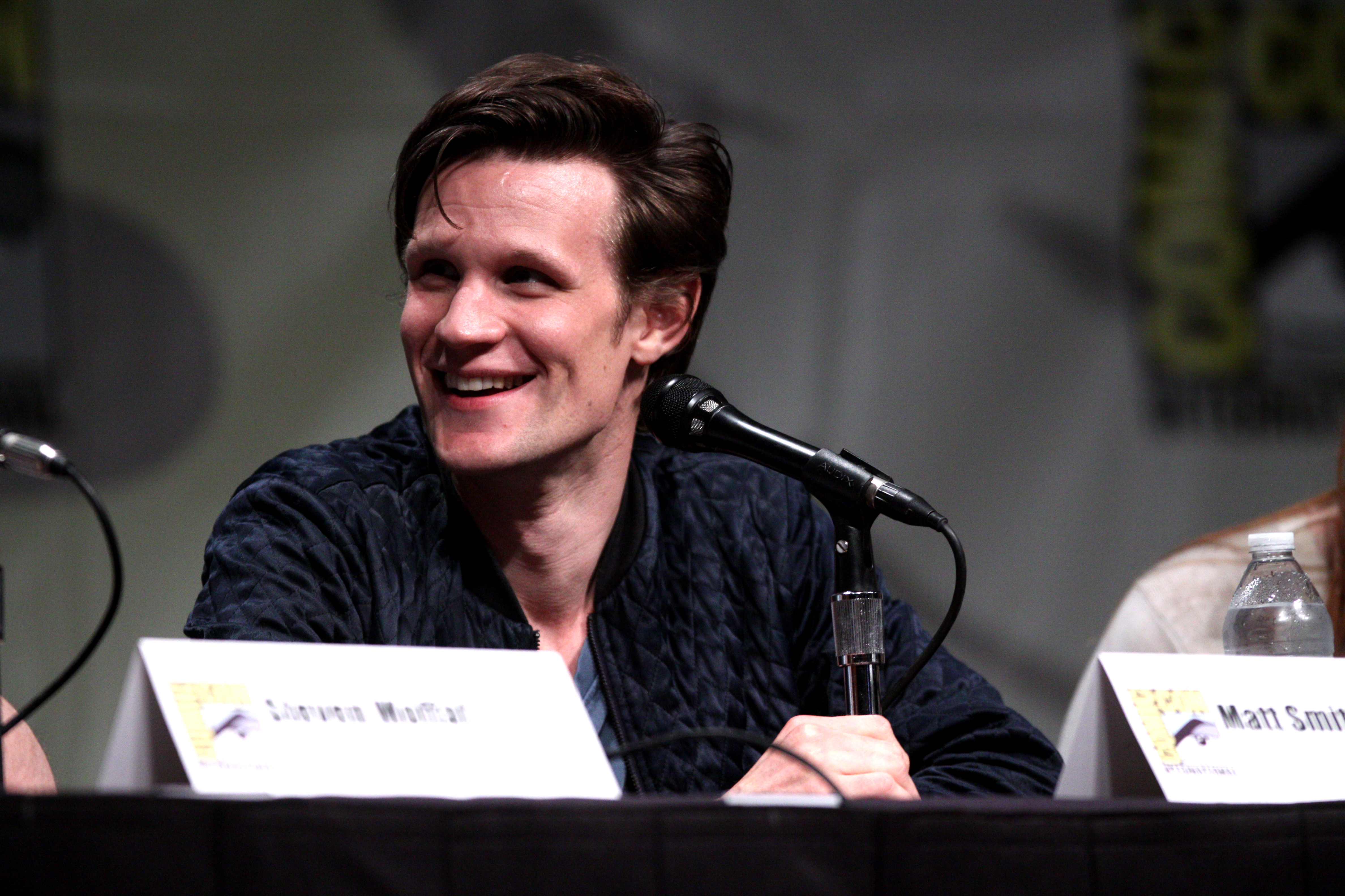 Matt Smith speaking at the 2012 San Diego Comic-Con International in San Diego, California.